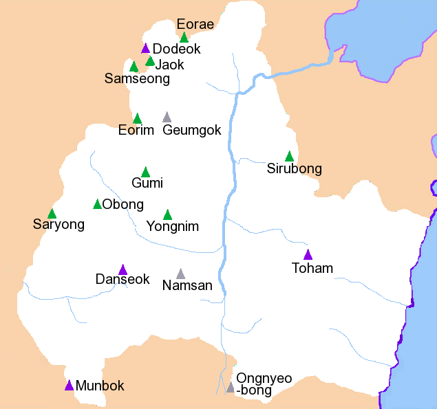 Mountains and drainage patterns of Gyeongju City, South Korea. Drawn by hand by User:Visviva. May contain inaccuracies. Mt. Munbok ('Munbok'san, 1,014m) Mt Danseok (Danseoksan, 829m) Mt. Toham (Tohamsan, 745m) Mt. Dodeok (Doeoksan, 703m) Mt. Obong (Obongsan, 688m) Mt. Saryong (Saryongsan, 685m) Mt Jaok (Jaoksan, 597m) Mt. Gumi (Gumisan, 594m) Mt. Eorae (Eoraesan, 593m) Mt Samseong (Samseongsan, 591m) Mt Yongnim (Yongnimsan, 591m) Mt. Eorim (Eorimsan, 510m) Mt. Geumgok (Geumgoksan, 344m) Mt. Sirubong (Sirubong, 503m) Mt Ongnyeobong (Ongnyeobong, 215m) Mt.Yonggang (Yonggangsan)